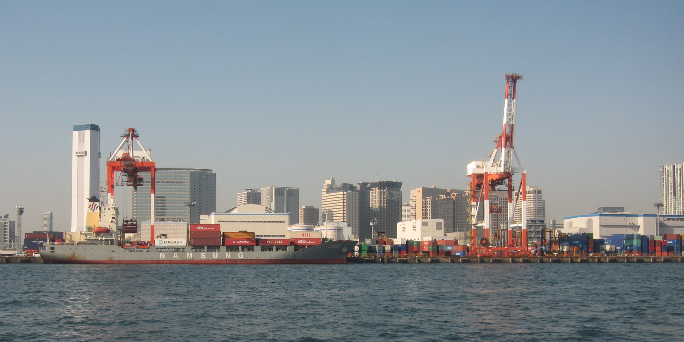 Port of Tokyo, Shinagawa Terminal SC and SD berth.